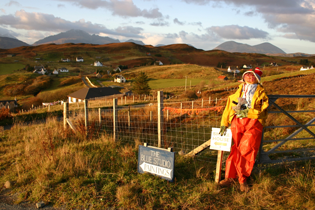 Tarskavaig: Halloween 2008 The setting sun lights up the Halloween decorations at the cross roads leading down to the crofting village of Tarskavaig